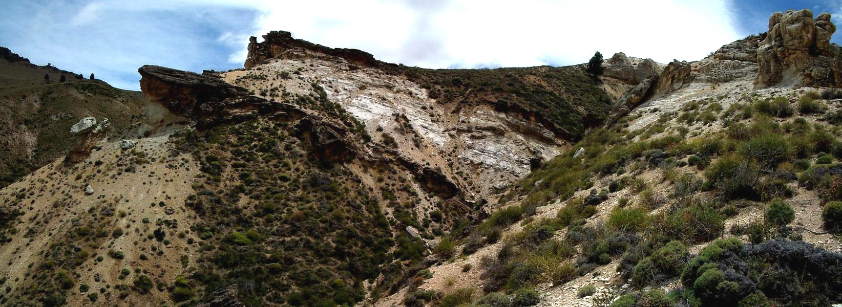 Huitrera fm. (Eocene) near Arroyo Chacay, Rio Negro, Argentina.